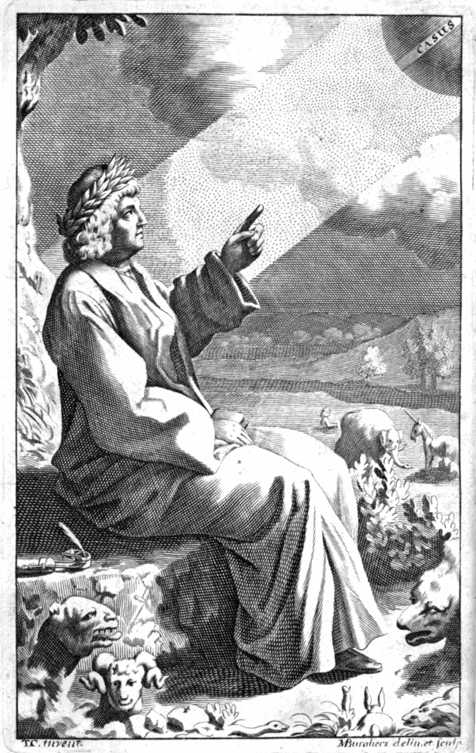 Engraving of the Roman poet Lucretius. Drawn and engraved by Michael Burghers. From the frontispiece to Thomas Creech, T. Lucretius Carus, Of the Nature of Things, second and third editions, Oxford and London 1682–3 Reproduced from the edition by [John Digby], 2 vols., London 1714.